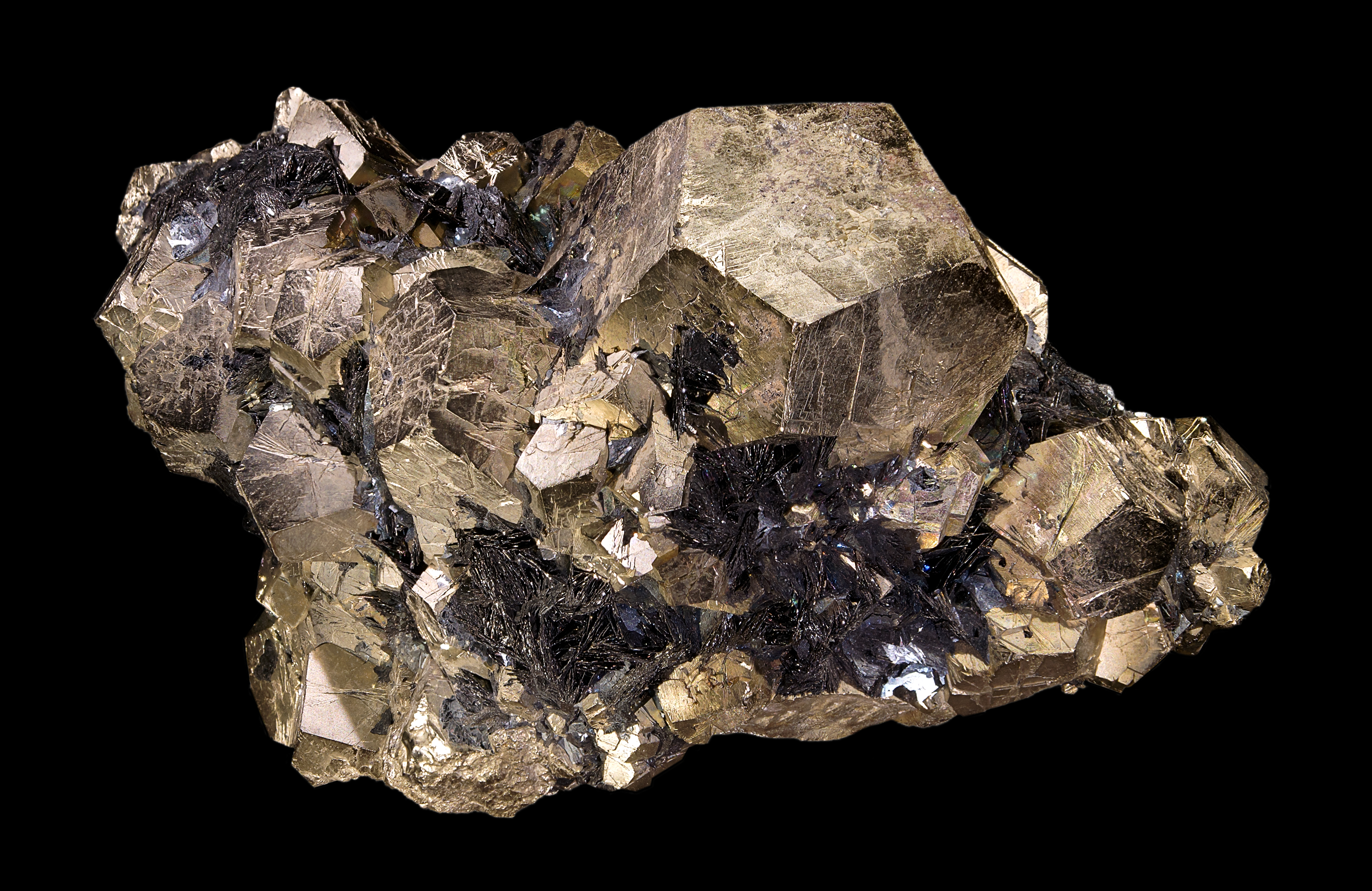 Pyrite Locality : Rio Marina, Elba Island, Livorno Province, Tuscany, Italy Size : 12 x 9.5 x 5.6 cm